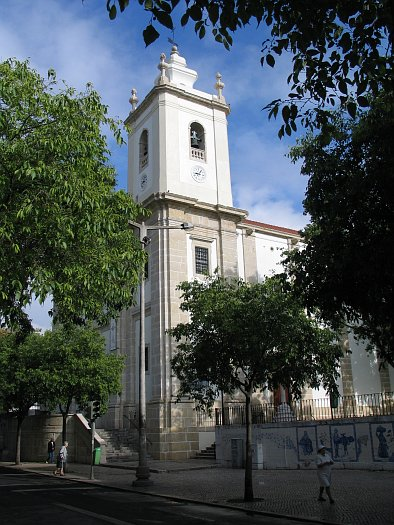 the church "Igreja de Nossa Senhora do Amparo" in Benfica district, Lisbon, Portugal